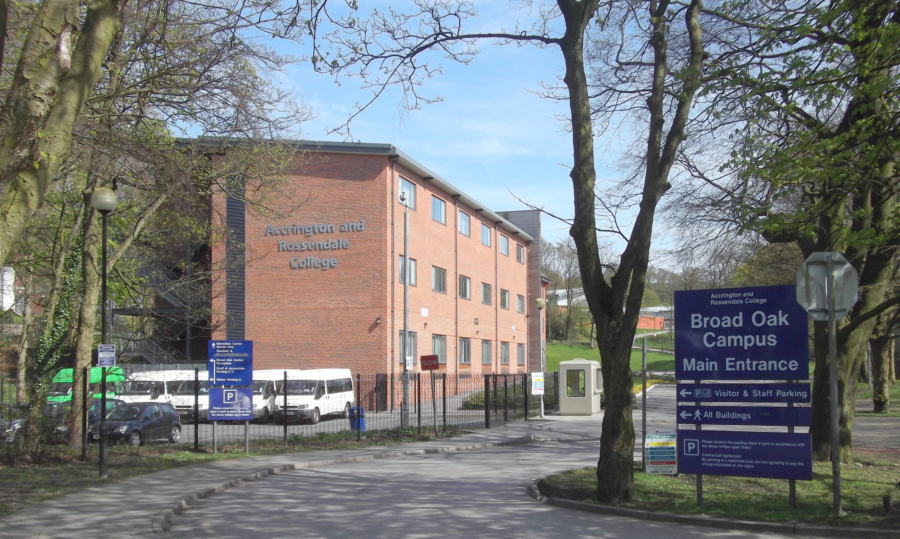 Accrington And Rossendale College, Broad Oak Road, Accrington BB5 2AW